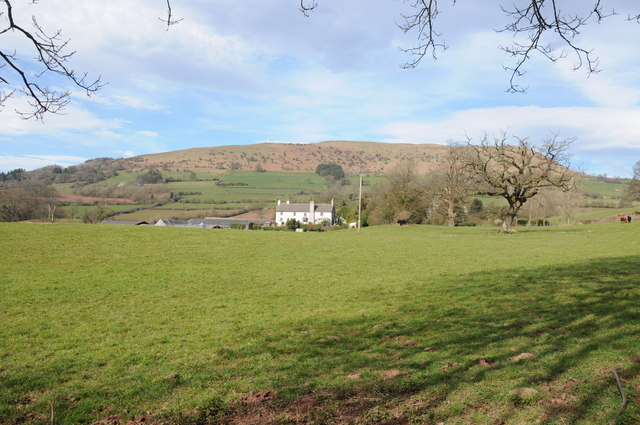 Llandewi Court